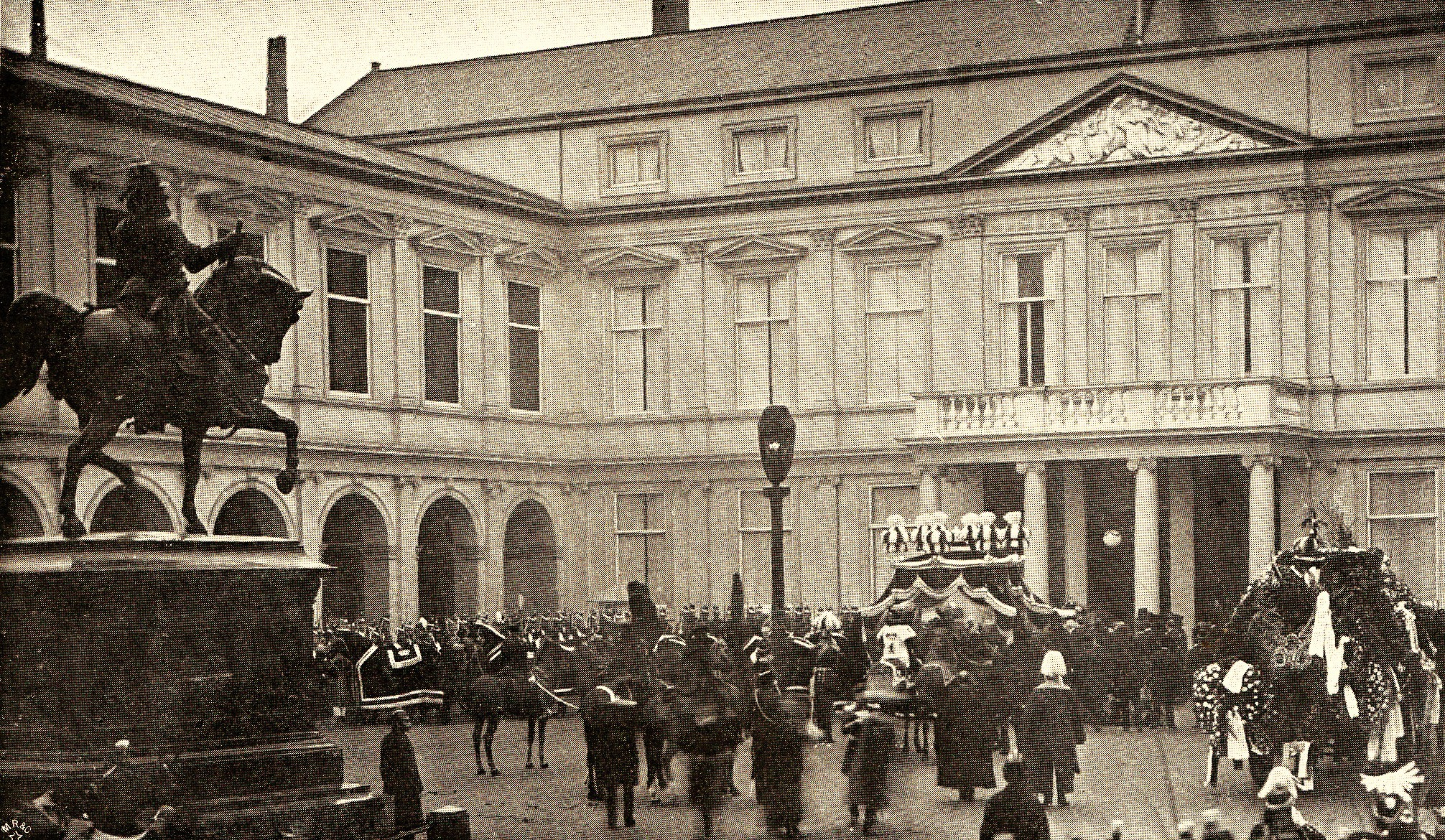 Begrafenis van Willem III